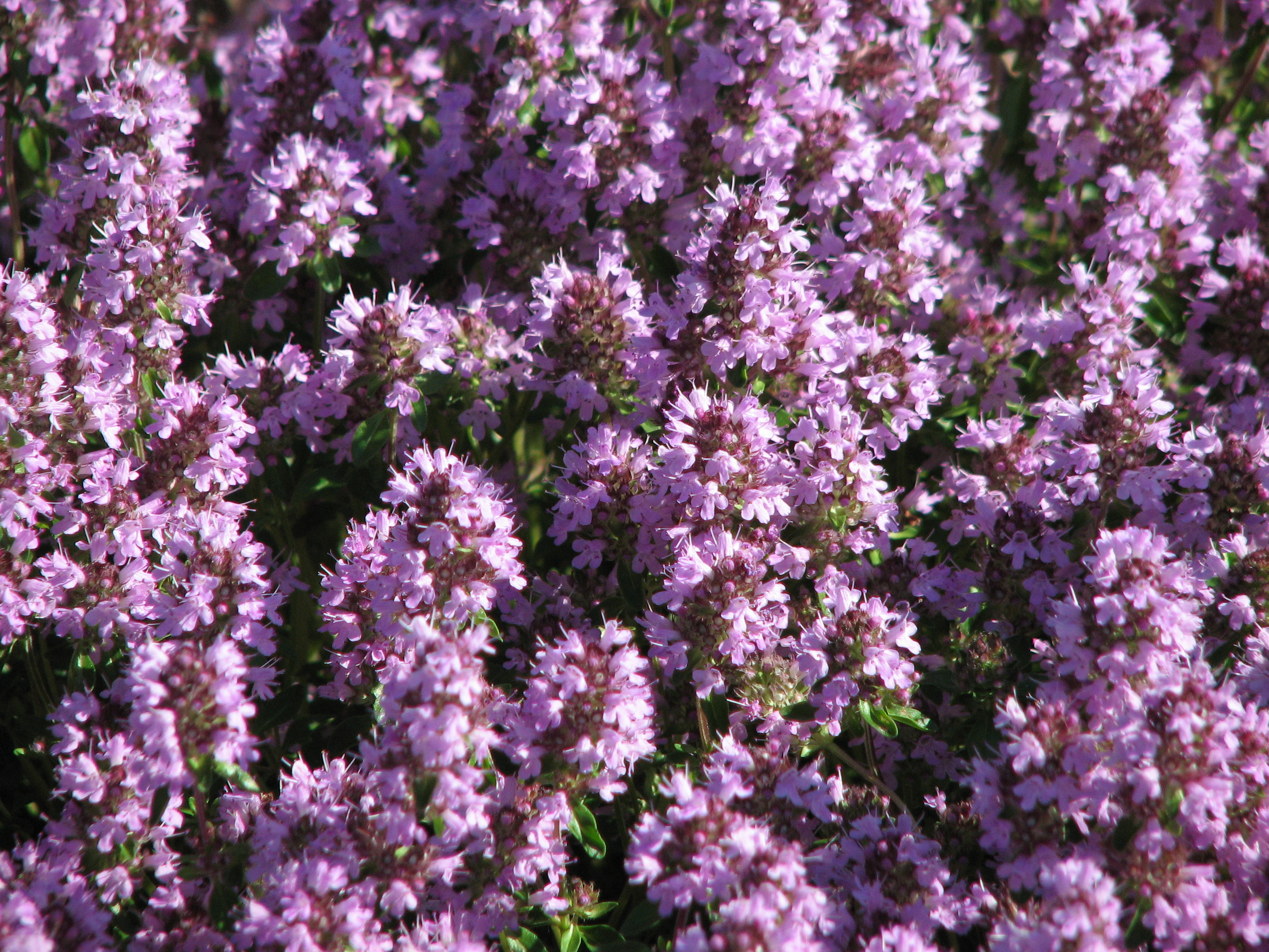 Thymus pulegioides. From the collection of the Main Botanical Garden of Academy of Sciences in Moscow (perennials plot).